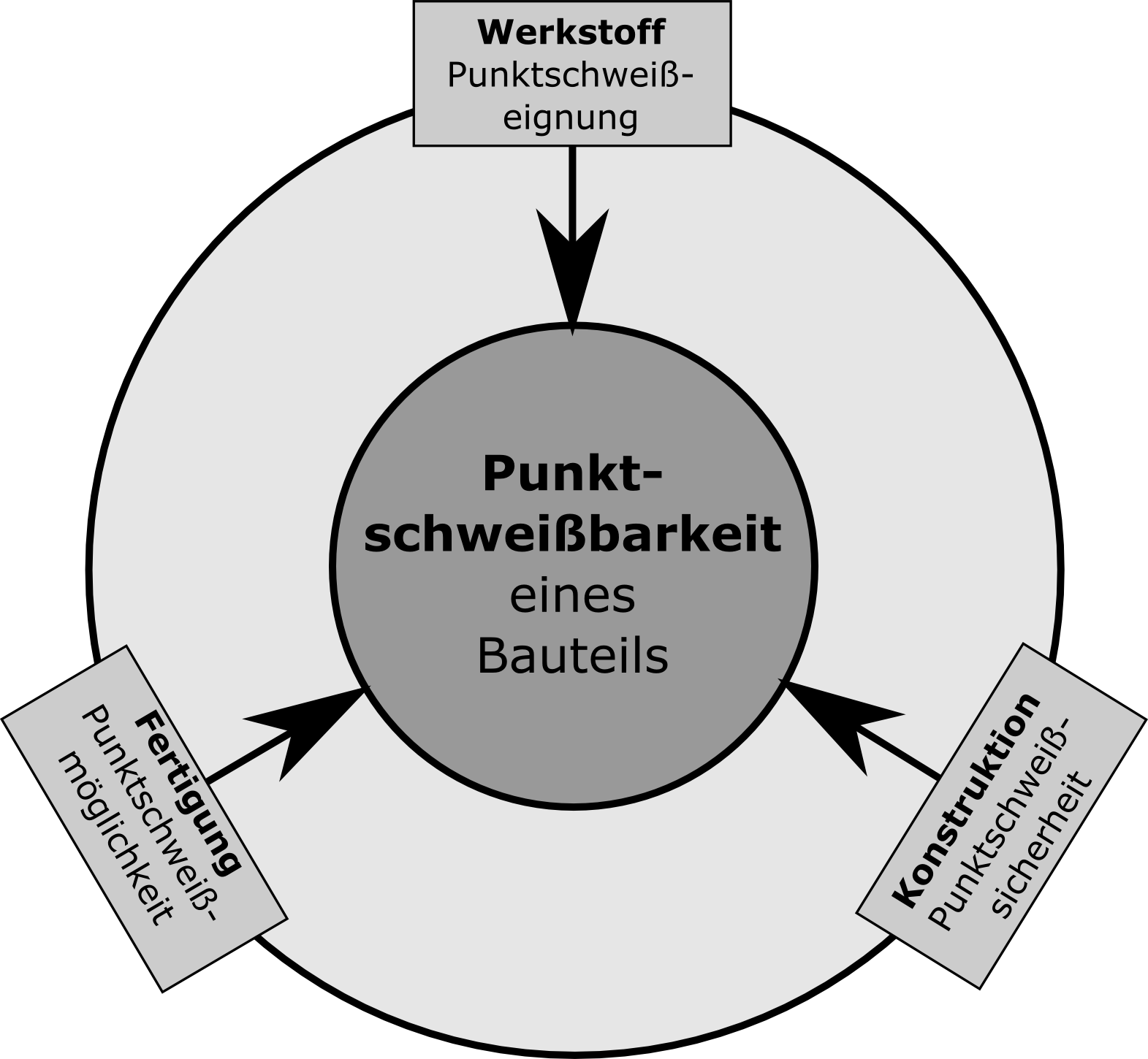 Resistance Spot Welding; Definition of Weldability; DVS 2902-1